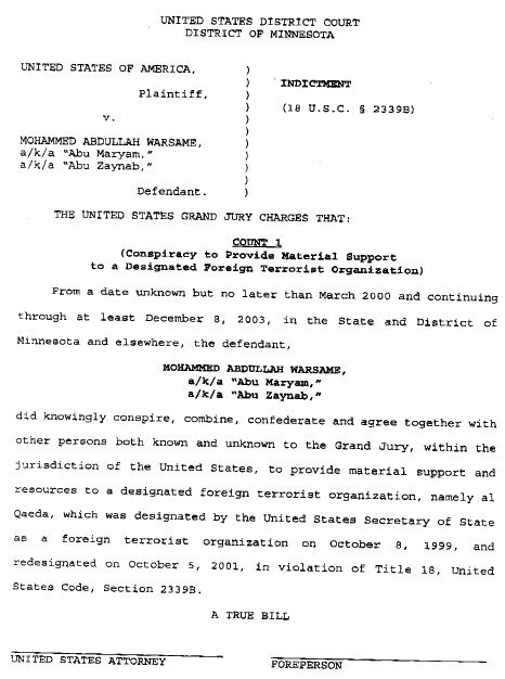 Copy of indictment against Mohammed Warsame